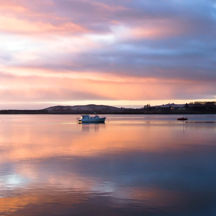 Sunrise over the Tauranga Harbor